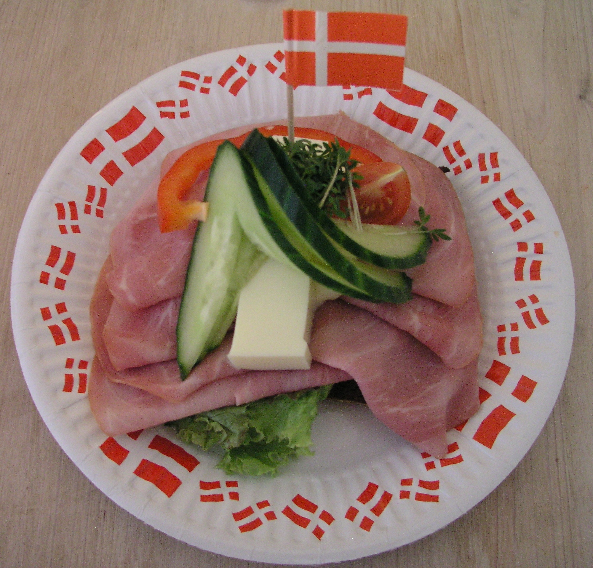 Danish open sandwich (smørrebrød) on dark rye bread (almost covered) with ham, salad, cucumber, æggestand (scrambled eggs and milk baked in oven), garden crest and tomato.